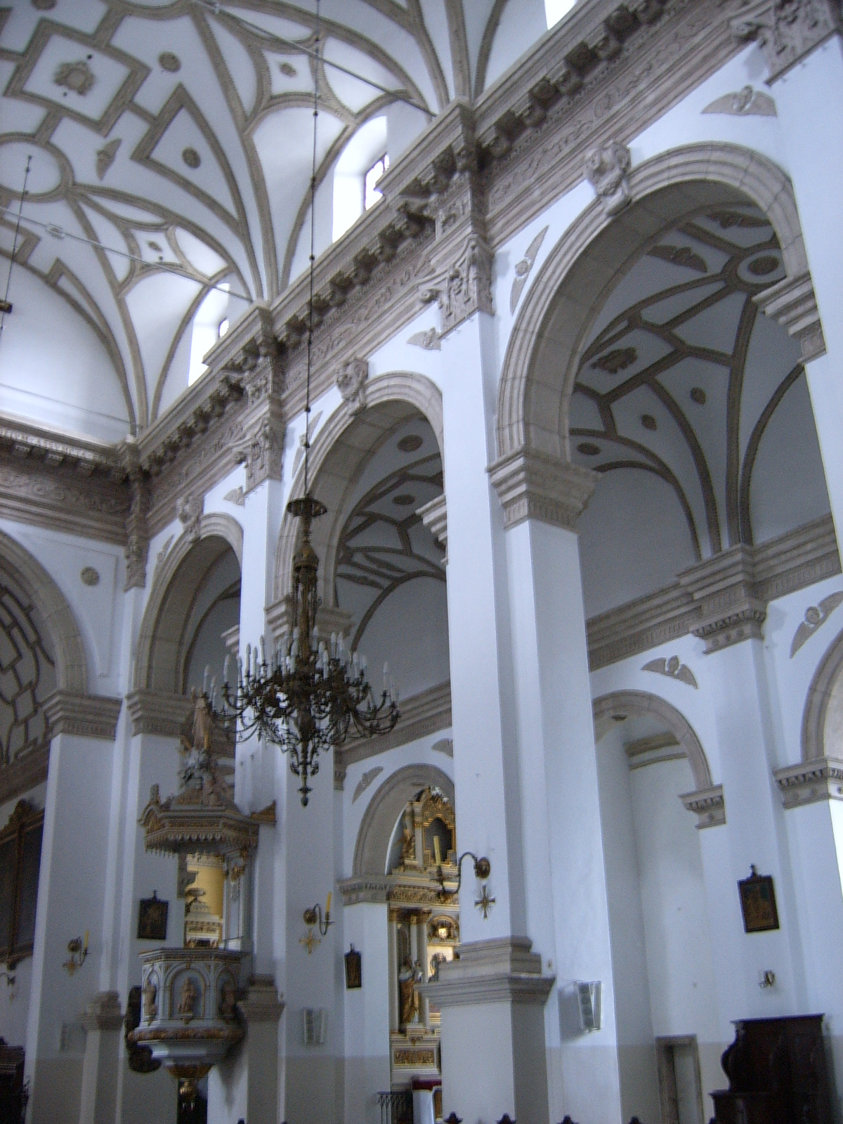 Cathedral in Zamość (nave)